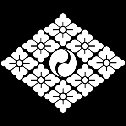 Japanese family crest "Yatsu-Hanabishi ni Futatsu-Domoe", eight hanabishis (diamond-shaped flower) arranged in a diamond shape, with the center a 2-radial symmetried tomoe